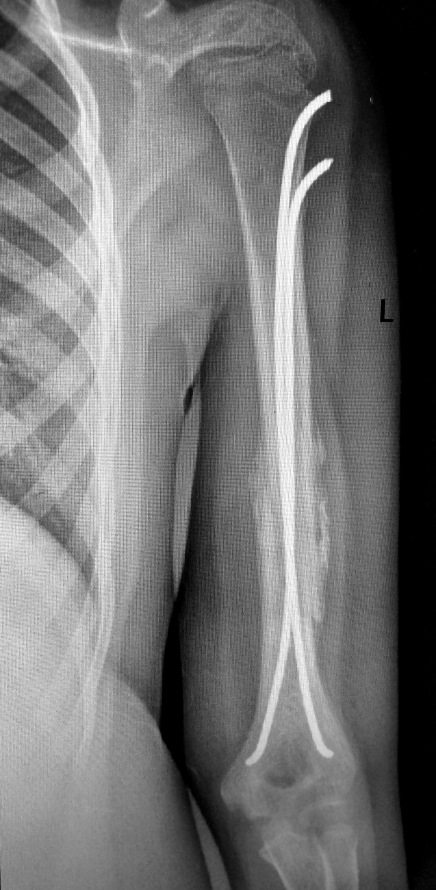 Fixed displaced humerus fracture